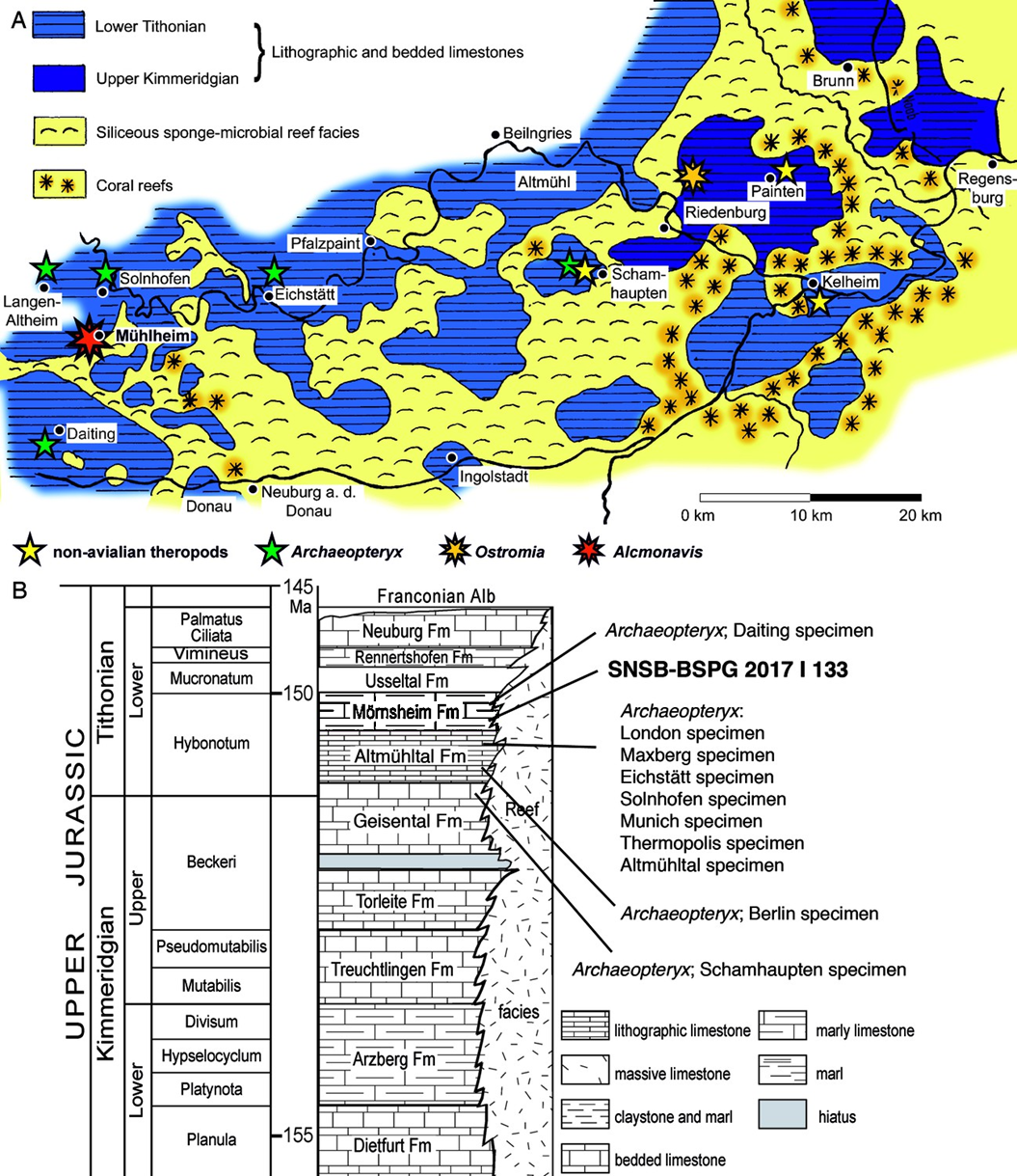 Geographic and stratigraphic provenance of the new avialan specimen Alcmonavis poeschli. (A) Map of the southern Franconian Alb with the palaeogeographic settings indicated and showing the localities of theropod specimens from the Solnhofen Archipelago (modified from Foth and Rauhut, 2017). (B) Stratigraphic position of the new specimen, SNSB-BSPG 2017 I 133, within the ‘Solnhofen limestones’ and in comparison to known specimens of Archaeopteryx (modified from Rauhut et al., 2012).